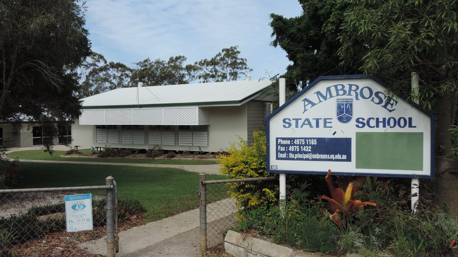 Ambrose State School, 39 Gentle Annie Road, Ambrose, 2014